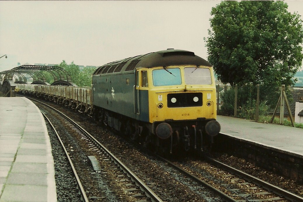 47318 wheels the 6V53 Stoke-on-Trent - St Blazey Clayliner through Stapleton Road. In the early 1980s these two tracks were removed when the route from Bristol - Filton Jn was reduced from 4 to 2 tracks, 30/9/81